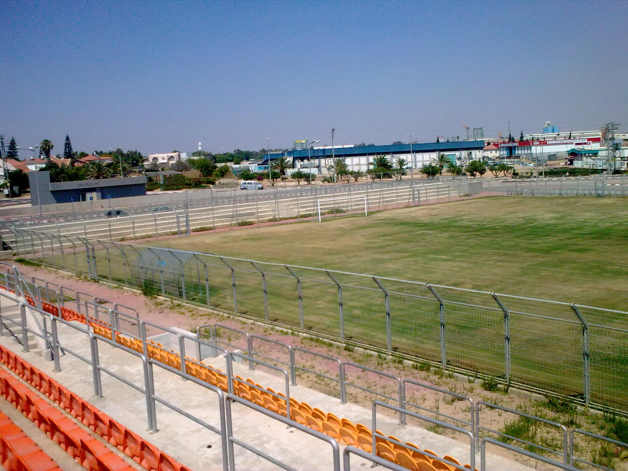 Netivot Municipal Stadium, Israel